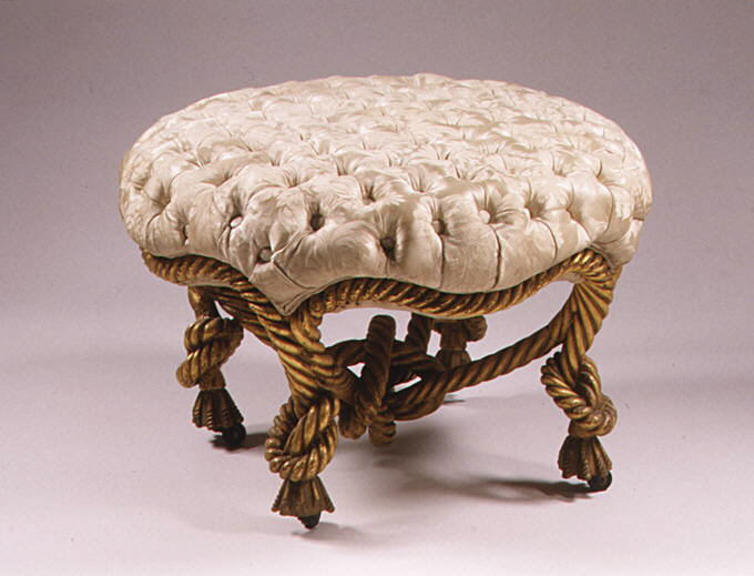 French; Stool; Woodwork-Furniture